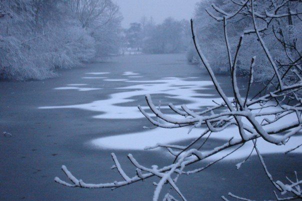 Whiteknights Lake, Reading University Feb